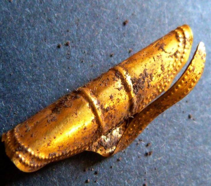 Gold ornament from Cairn 1 of the Kirkhaugh cairns, discovered in 2014.